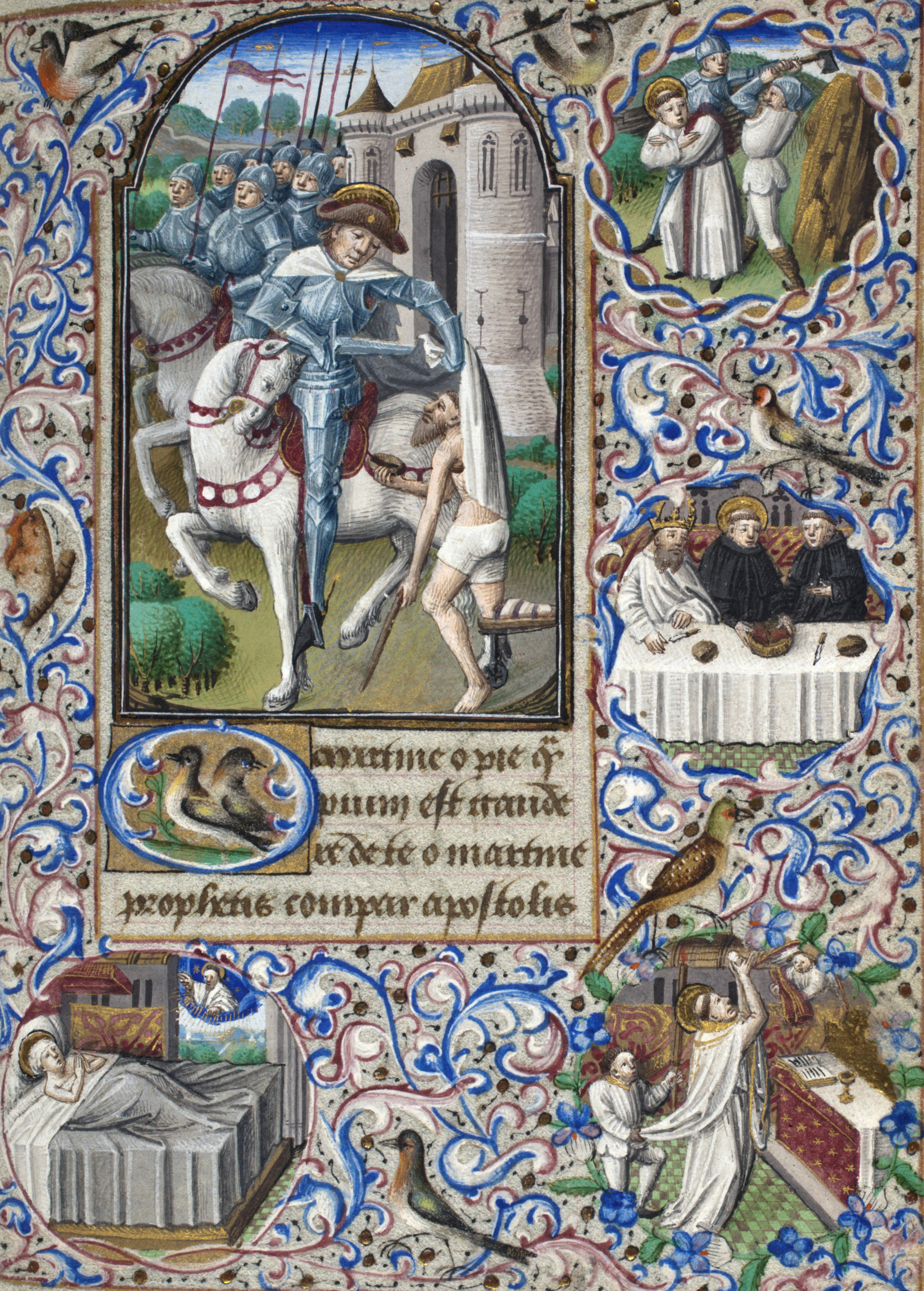 Folio 080r from the Book of Hours of Simon de Varie - KB 74 G37 Miniatures on the folio 080r St. Martin, Bishop of Tours, at table with the Emperor Maximus St. Martin, Bishop of Tours, attacked by robbers The mass of St. Martin, Bishop of Tours Vision of St. Martin, Bishop of Tours St. Martin, Bishop of Tours, gives part of his cloak to a beggar